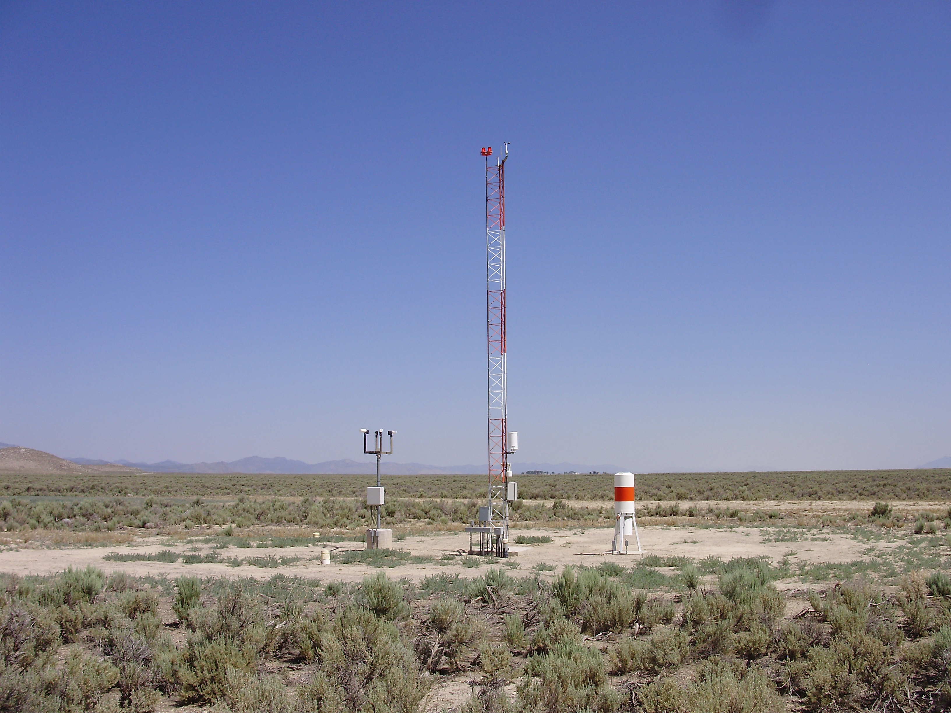 Eureka Airport AWOS viewed from the south